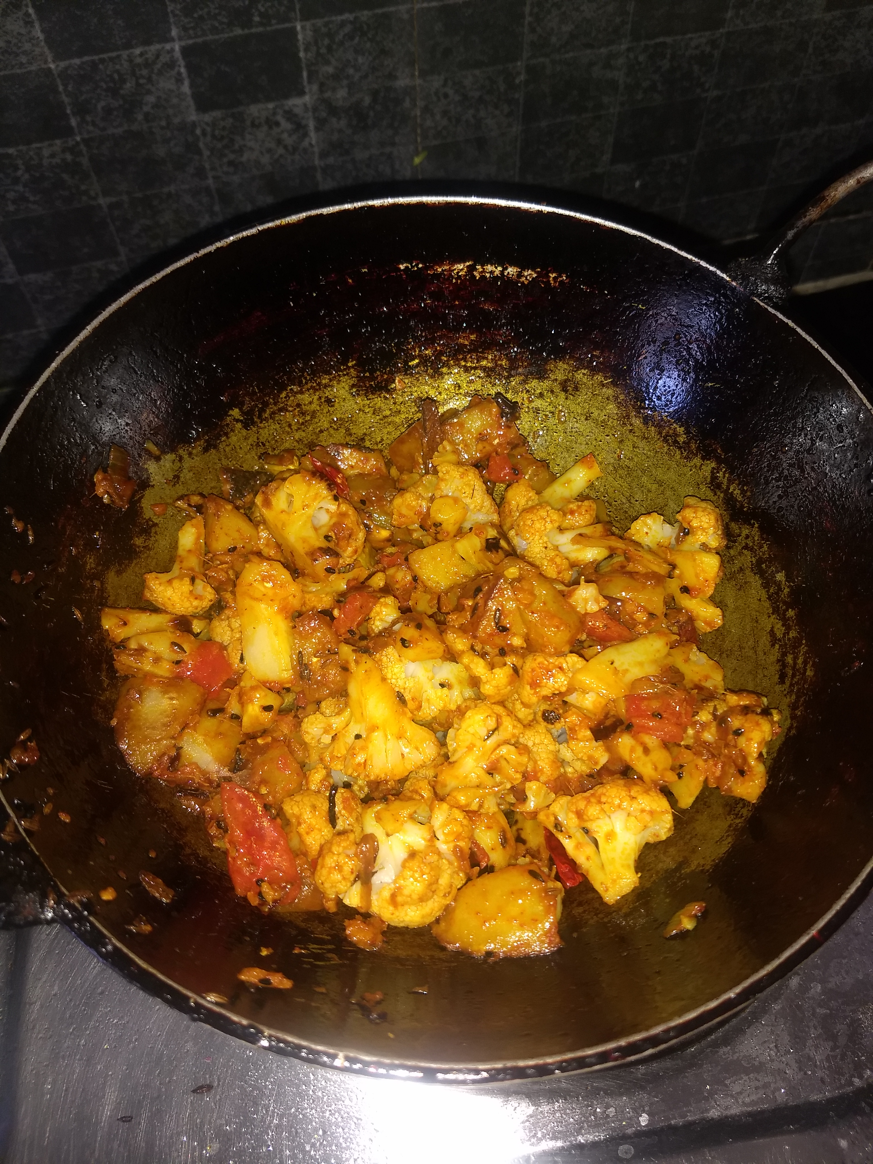 Potato and cauliflower curry